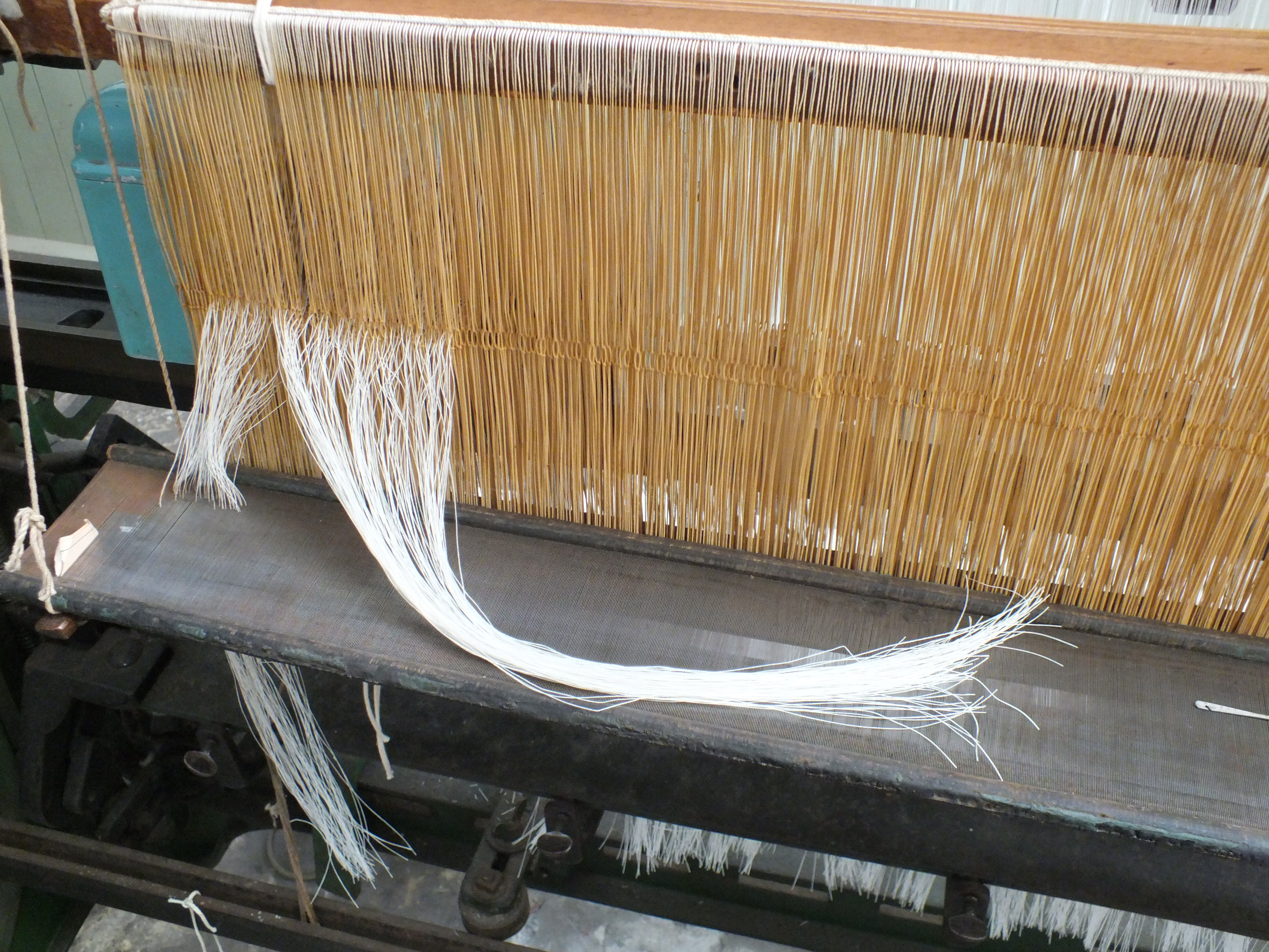 This item is in the collectionQueen Street Mill in Harle Syke, a suburb to the north-east of Burnley, Lancashire. The mill was built in 1894 for the Queen Street Manufacturing Company. It closed on 12 March 1982 and was mothballed, but was subsequently taken over by Burnley Borough Council and used as a museum. In the 1990s ownership passed to Lancashire Museums. Unique in being the world's only surviving steam-driven weaving shed. The Looming frame, aka Drawing-in frame, the ends are drawn though the eyes of the heald, andthen passed down through the reed.